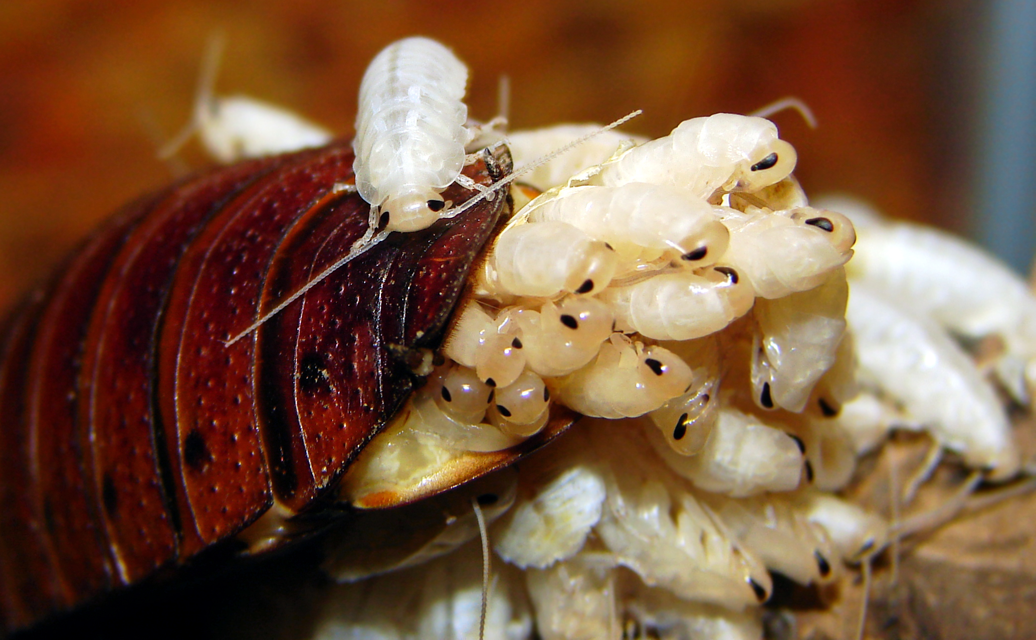 Madagascar hissing cockroach, Gromphadorhina portentosa, giving birth to her first brood. Their exoskeletons will harden and turn dark soon.